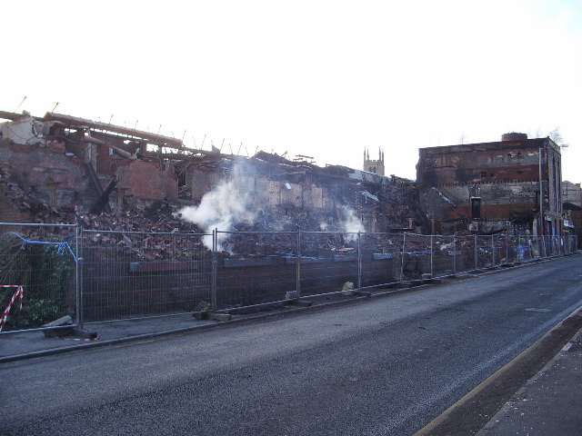 After the fire The remains of Woodfield Mill still smouldering